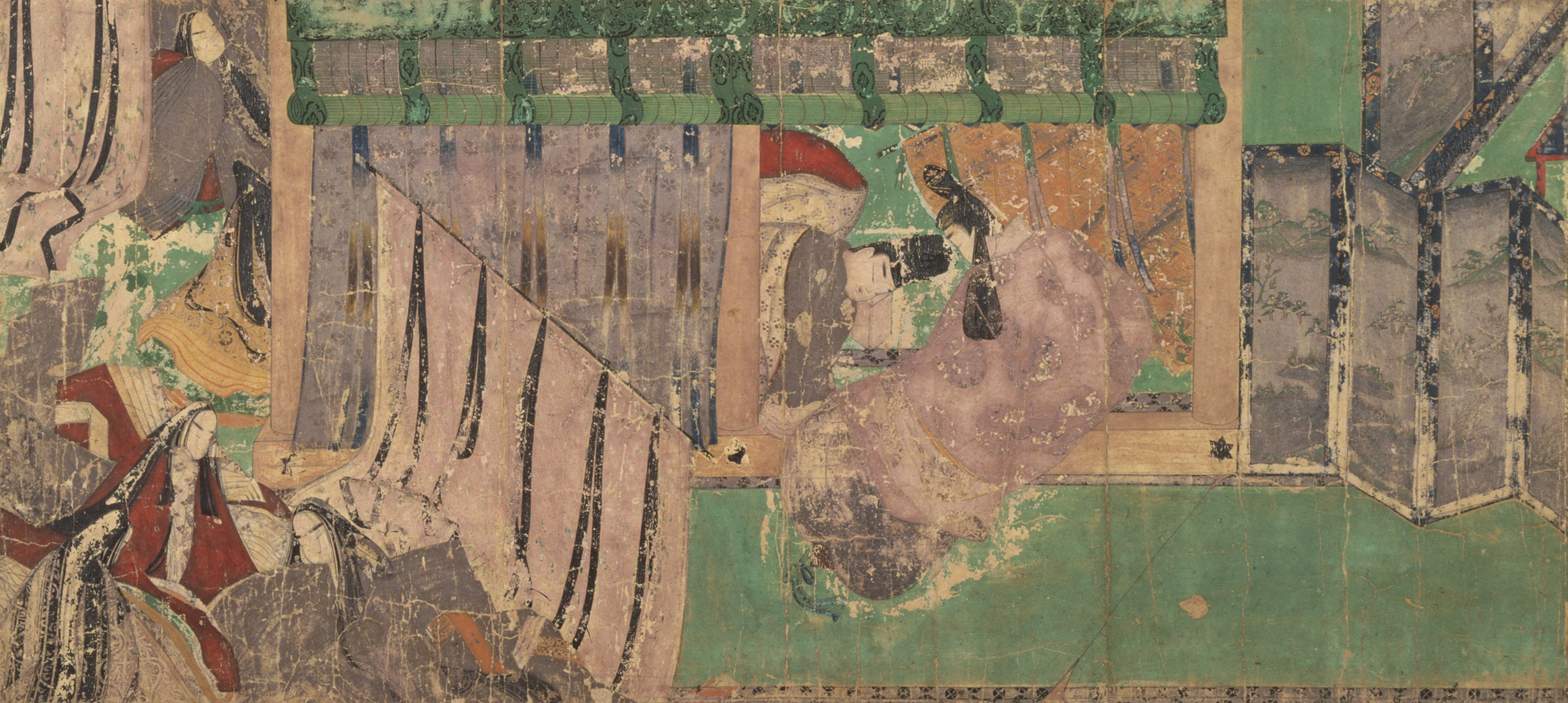 A scene of the Chapter "KASIWAGI" of Illustrated handscroll of Tale of Genji (written by MURASAKI SHIKIBU(11th cent.). The handscroll was made in about ACE1130 and stored in TOKUGAWA Museum, Japan. The handscroll were separated to each sections and mounted to frame for conservation.